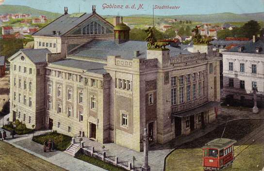 Jablonec nad Nisou, Czech Republic: Theatre. Postcard from ca. 1911.